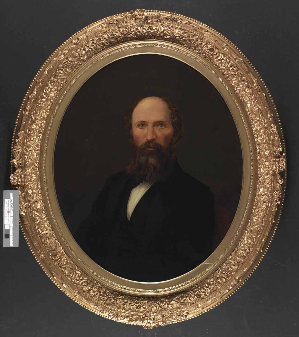 A painting from the Framed Works of Art collection at the National Library of wales.